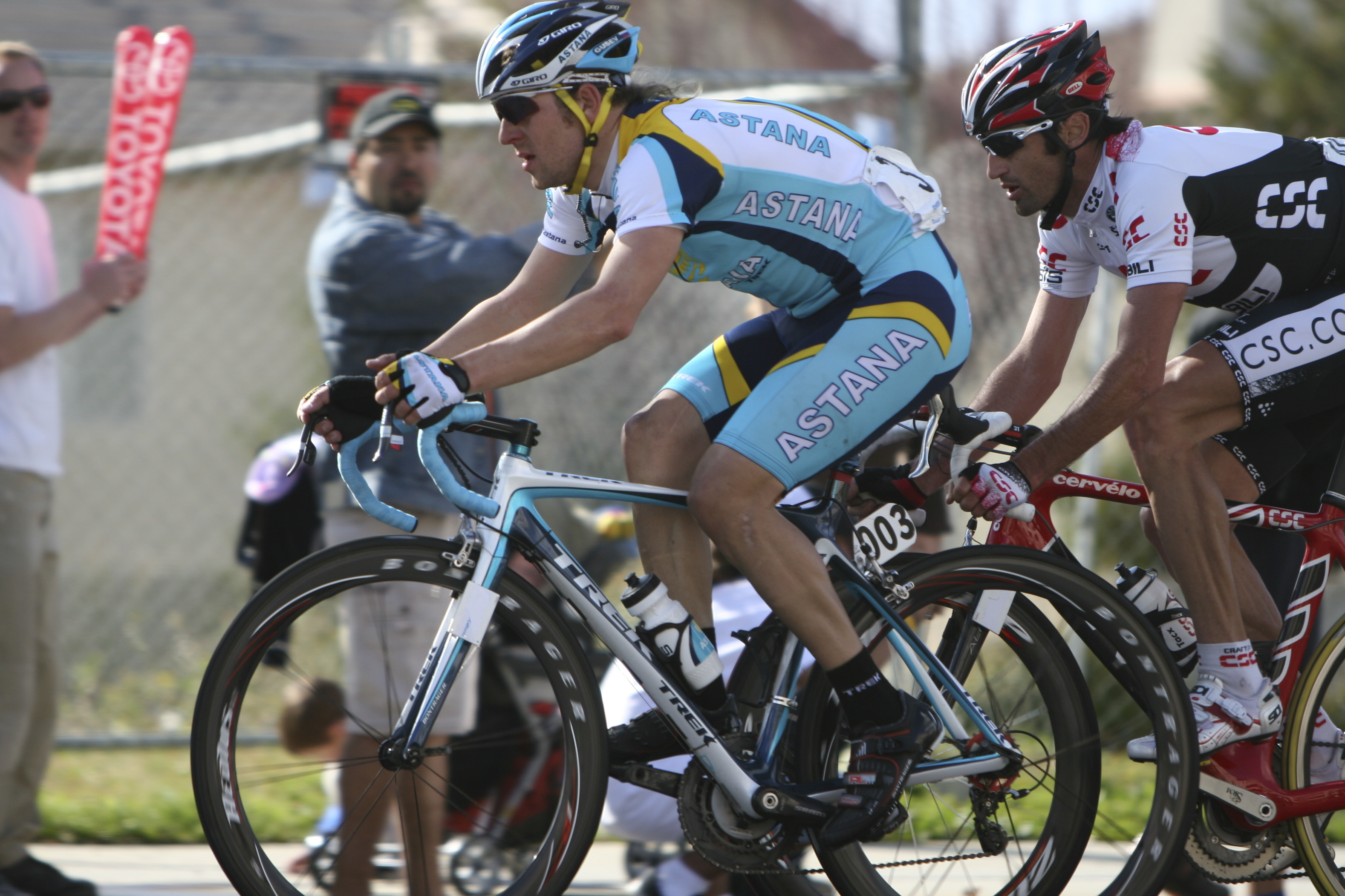 Vladimir Gusev and Bobby Julich, Tour of California 2008